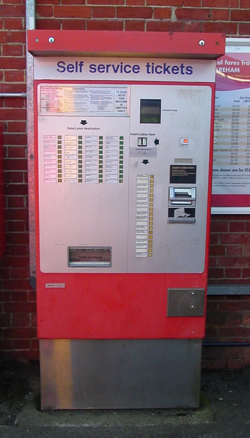 Ascom B8050 "Quickfare" self-service ticket issuing machine at Wareham, Dorset.